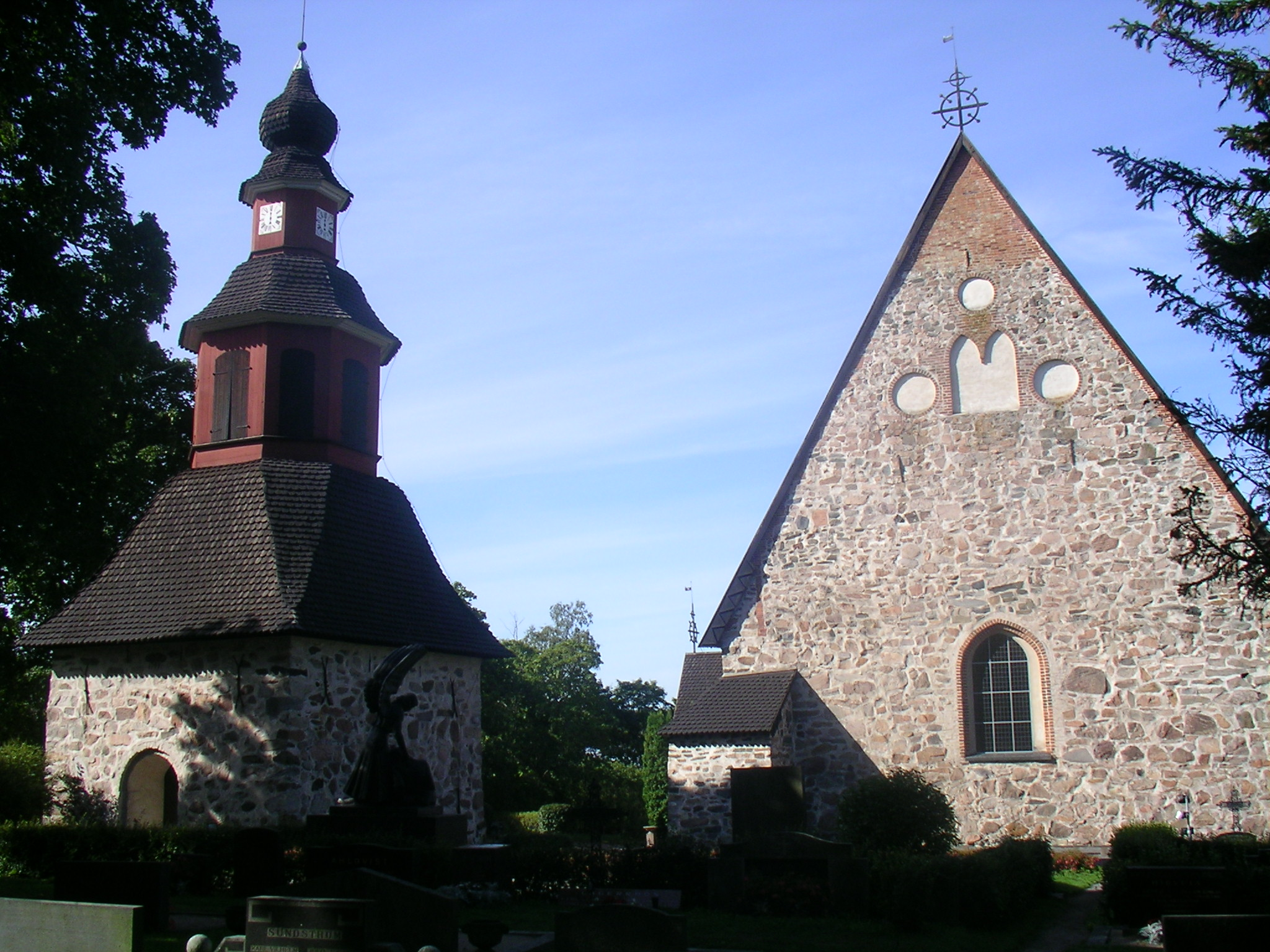 The (luhteran) church and belltower in Perniö, Finland.